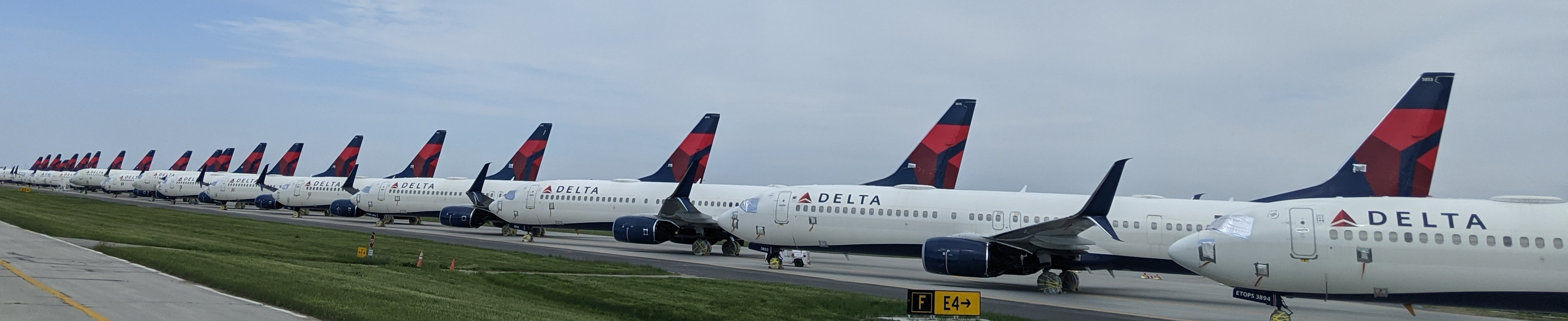 Delta Air Lines planes (mostly 737's and A321's) parked at MCI on the north end of taxiway F and runway 1R/19L (in the background) due to COVID-19 Pandemic